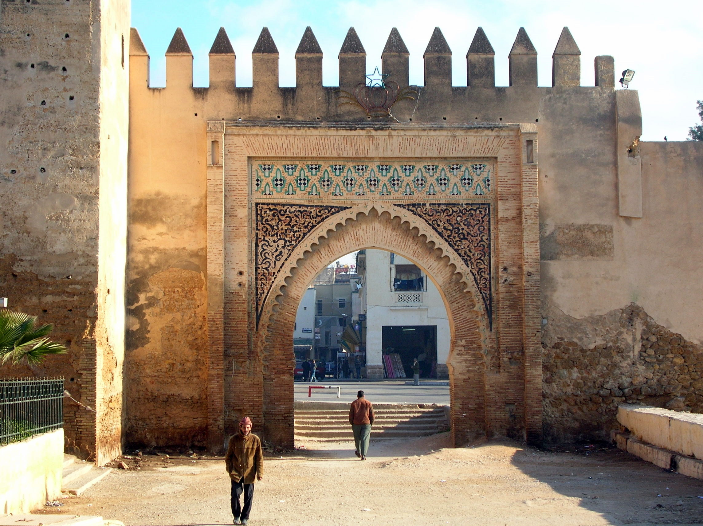 A gate, Bab al-Amer (Gate of Order), of the Fes Jdid quarter, Fes, Morocco